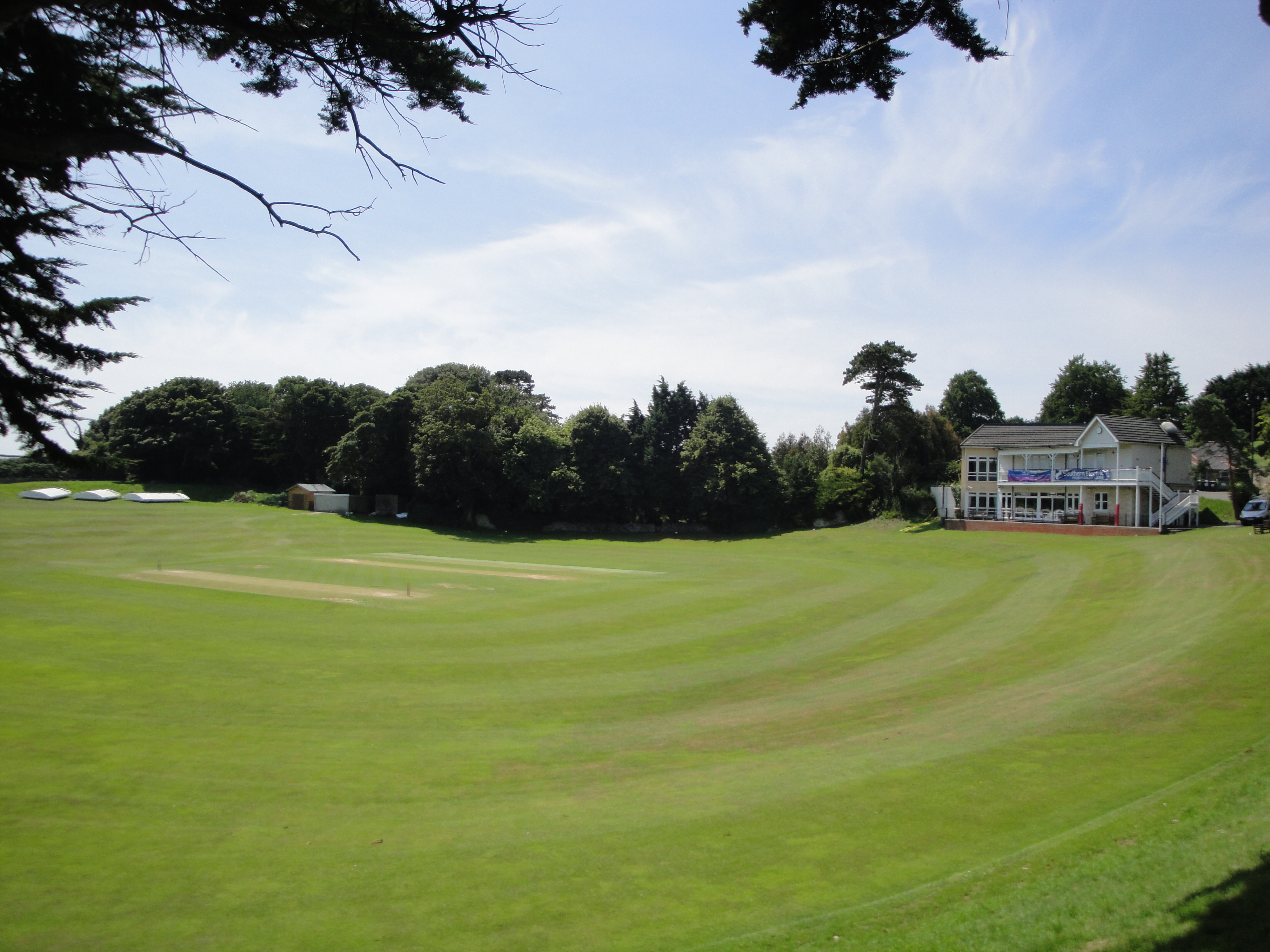 Ventnor Cricket Ground, off Steephill Road, Ventnor, Isle of Wight, seen in July 2011.